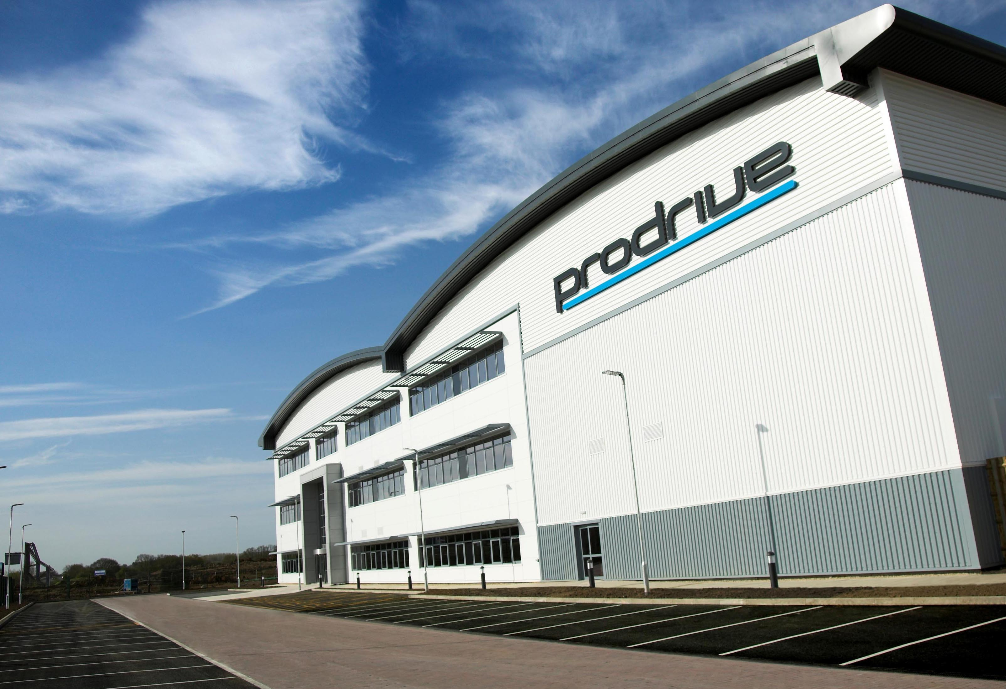 Prodrive headquarters Banbury